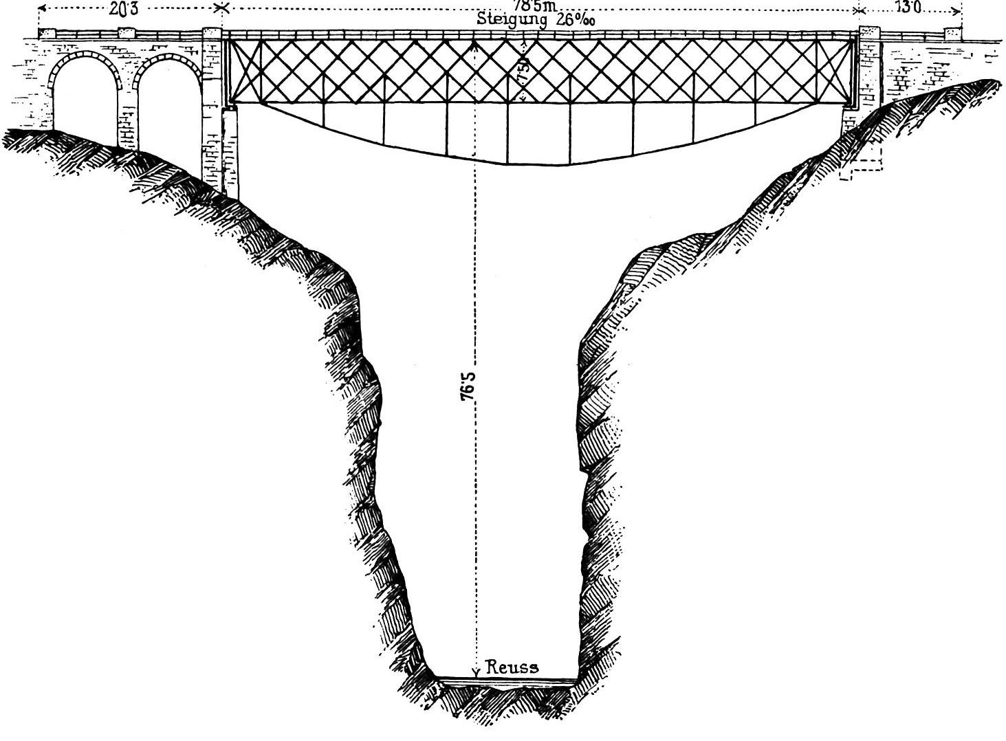 original Intschi-Reuss-Bridge at km 49.2 of the Gotthardbahn spanning the Reuss valey near Intschi, also showing later reinforcements of the bridge.